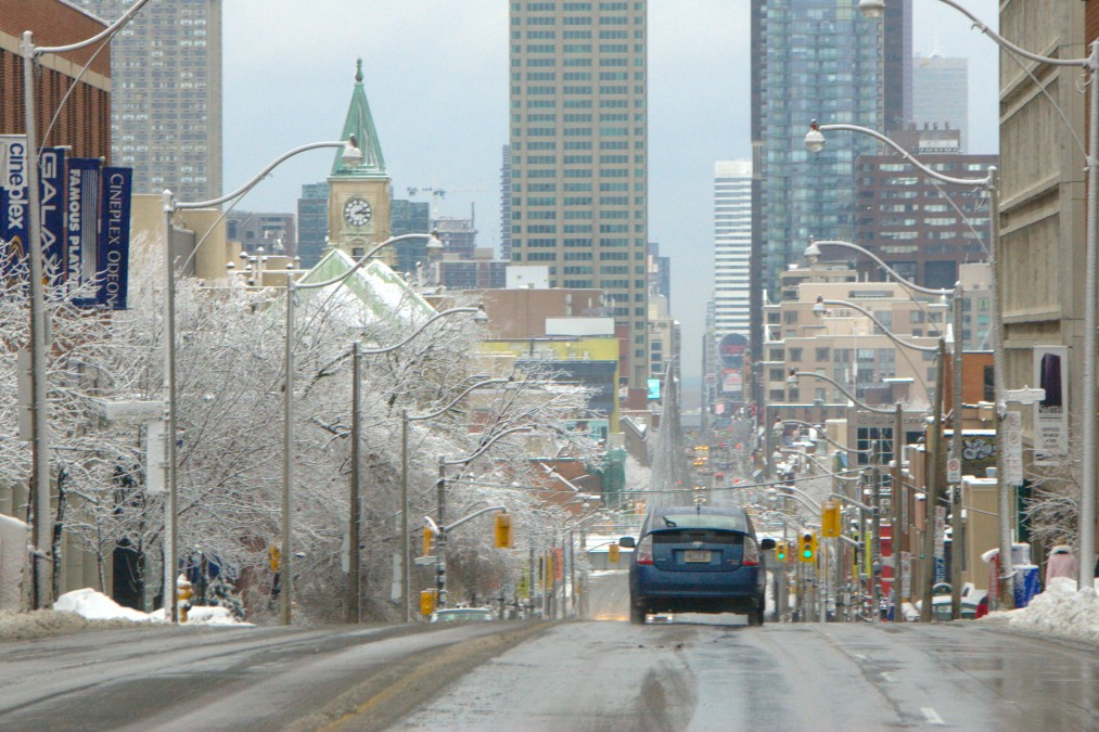 Yonge Street looking south from south of St. Clair Avenue. Toronto, Canada.